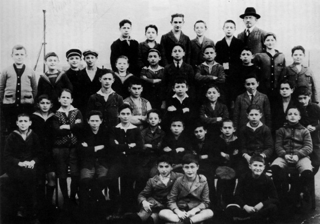 Dr. Nachman Schlesinger with class, Primary School, Congregation Adass Jisroel in Berlin, 1924.